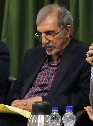 Ali Mousavi Garmaroudi in a Meeting attended by Poets and people of culture and literature with Ali Khamenei-June 2017